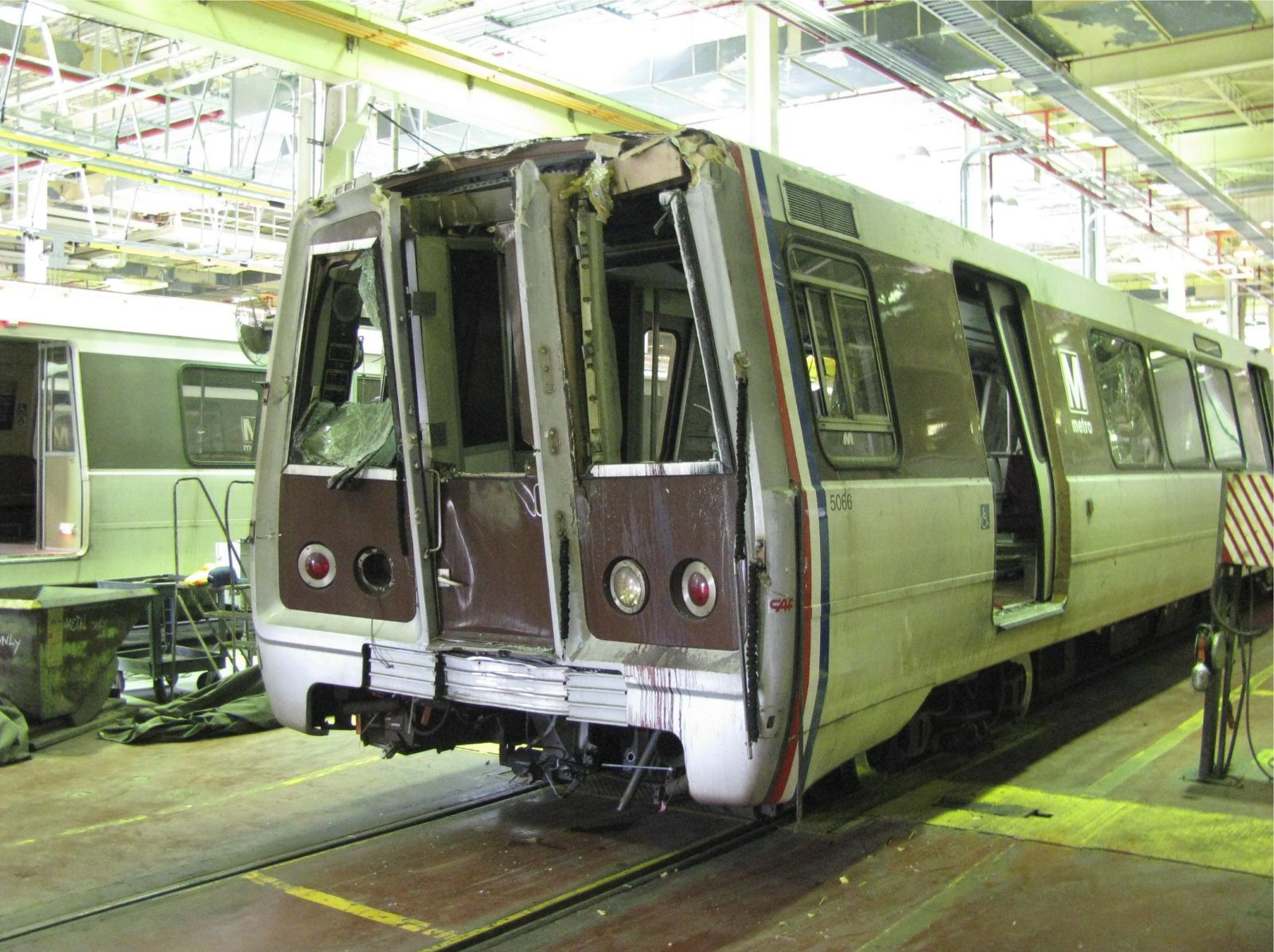 Original caption: Post-recovery, car # 5066, exterior, lead (front) end, ¾ - side / end view, from ground level. NTSB Docket Crashworthiness Factual Report – Addendum # 2, Descriptions of Photographs of the Crashworthiness Investigation